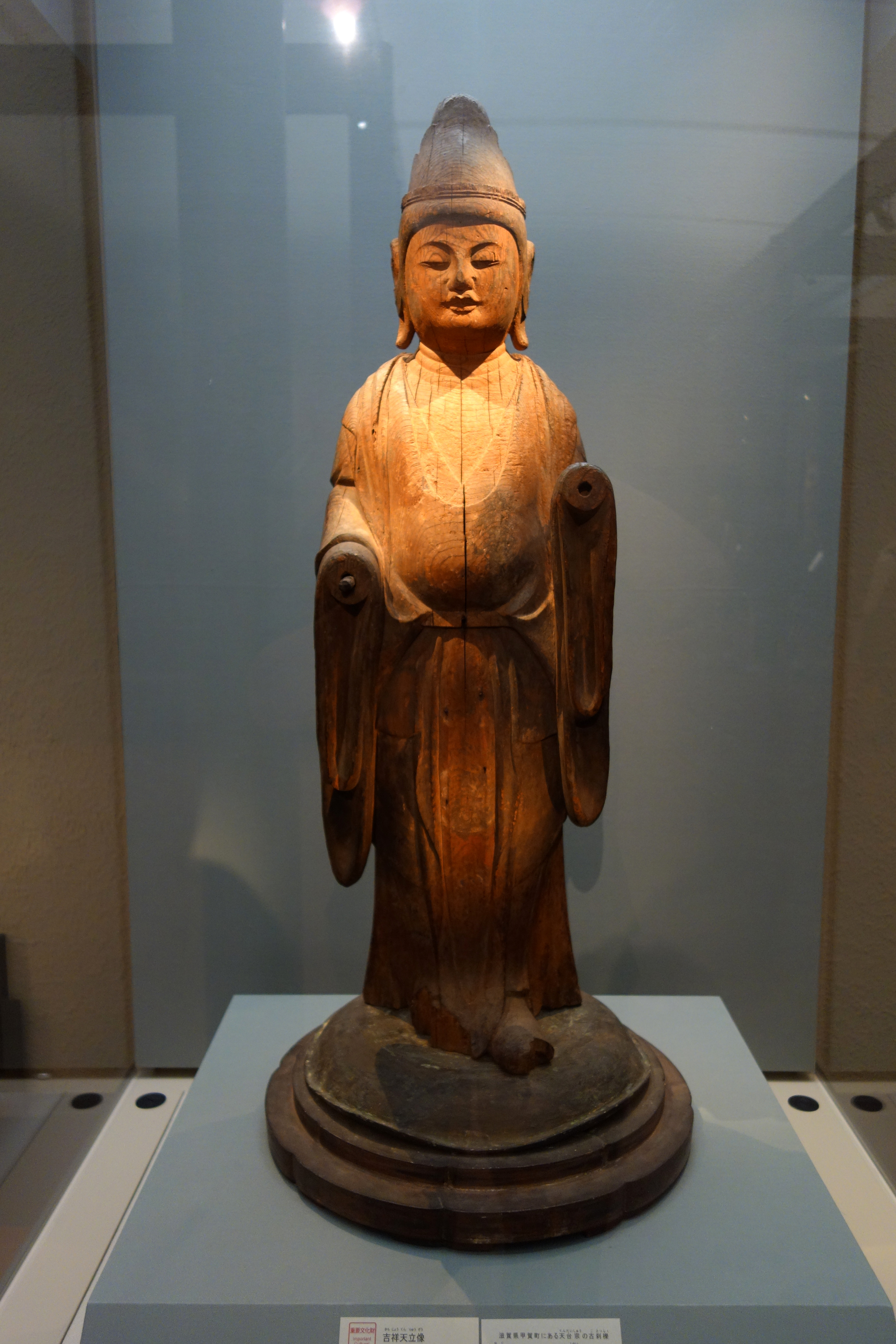 Exhibit in the Tokyo National Museum, Tokyo, Japan. This artwork is old enough so that it is in the public domain.